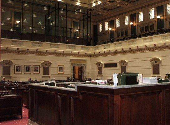 Senate chamber of the Oklahoma Senate in Oklahoma City, Oklahoma, USA.